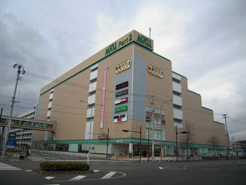 The Mall Sendai Nagamachi Part II in Taihaku-ku, Sendai City, Miyagi Prefecture, Japan